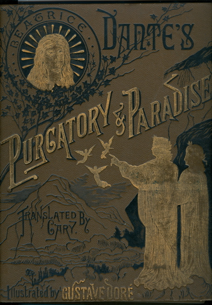 DANTE'S PURGATORY AND PARADISE. TRANSLATED BY THE REV. HENRY FRANCIS CARY, M.A. FROM THE ORIGINAL OF DANTE ALIGHIERI AND ILLUSTRATED WITH THE DESIGNS OF M. GUSTAVE DORE.